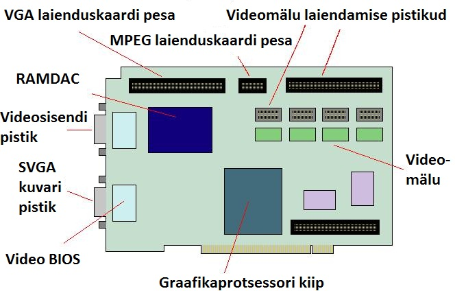 Videokaardi üldine skeem